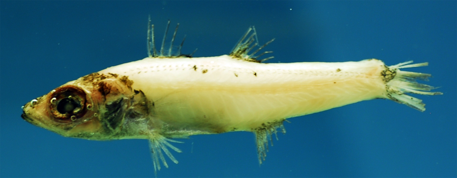 Epigonus occidentalis from the Gulf of Mexico